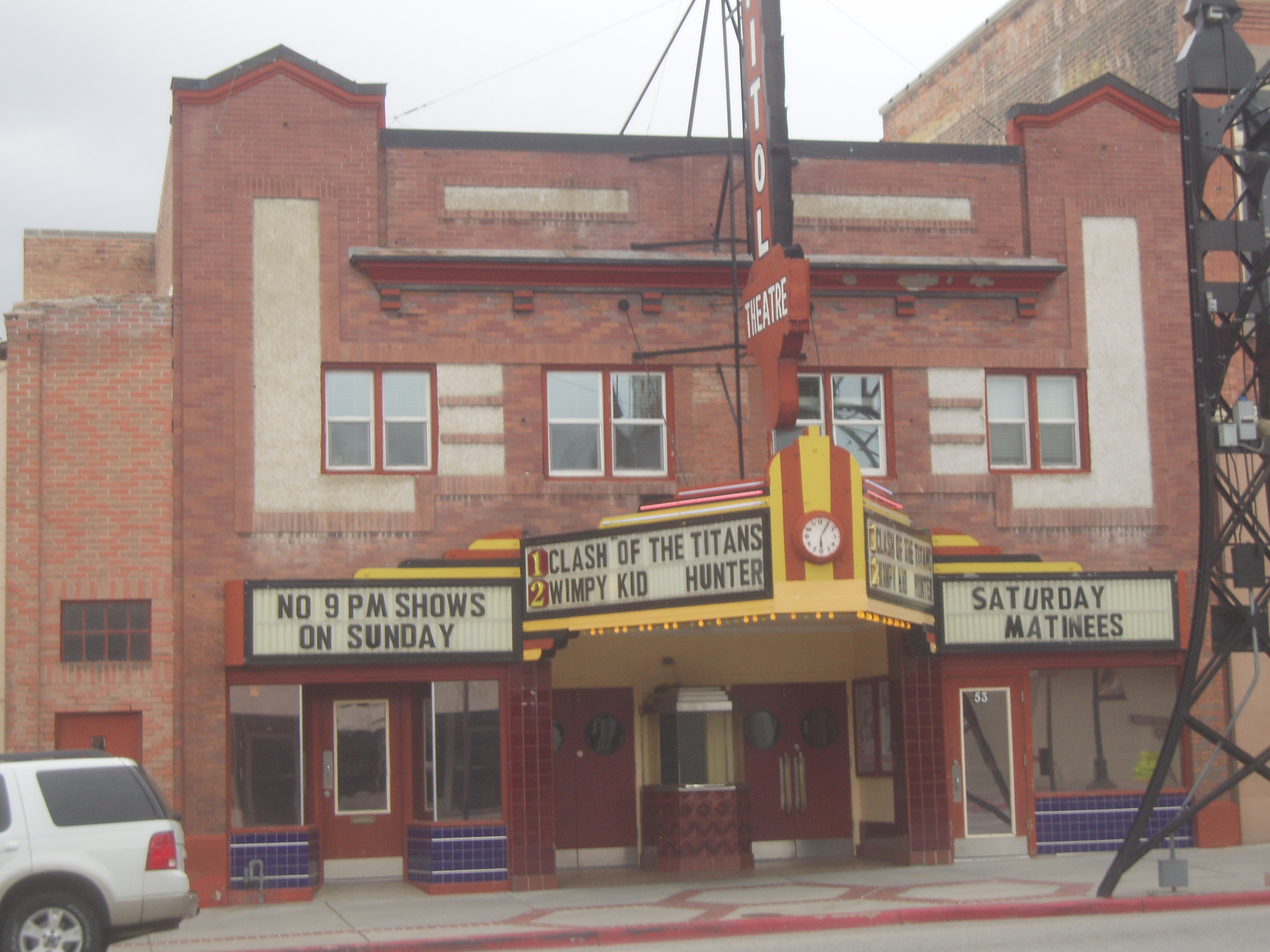 The Elberta Theatre, a historic building in Brigham City, Utah, United States.